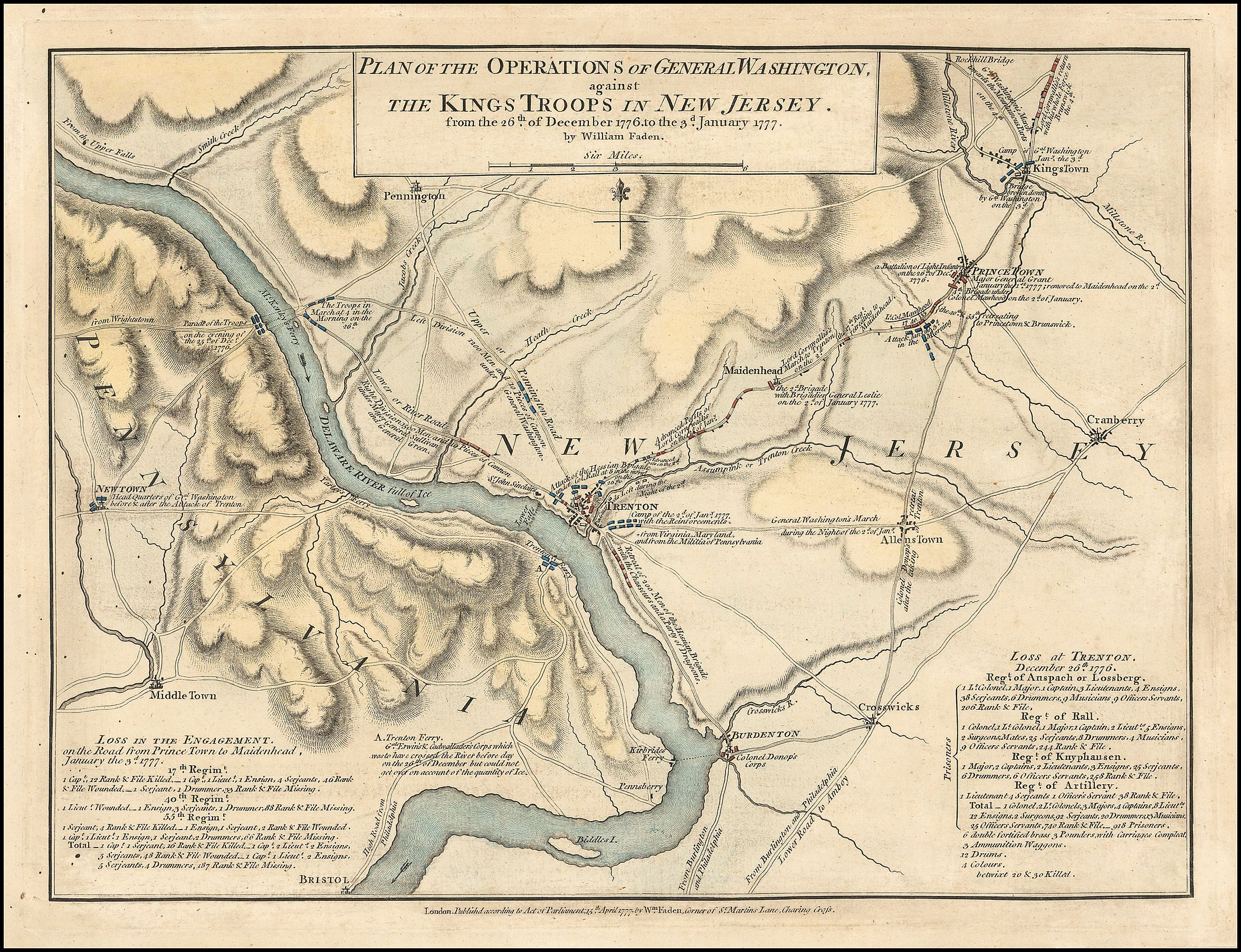 Plan of the operations of General Washington, against the Kings troops in New Jersey, from the 26th. of December, 1776, to the 3d. January 1777. Image of map by William Faden, depicting Washington's crossing on the Delaware RiverManuscript, pen-and-ink and watercolorImage rendered for clarity and tone by Gwillhickers